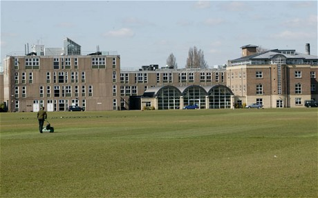 View from Hammersmith Bridge